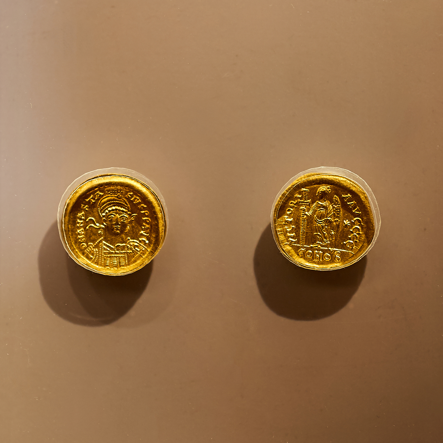 Solidi (gold coins) of Anastasius I (491-518). Mint of Constantinople. Obverse (BXM 594): Anastasios I. Reverse (BXM 597): winged Victory. Athens, Byzantine and Christian Museum.